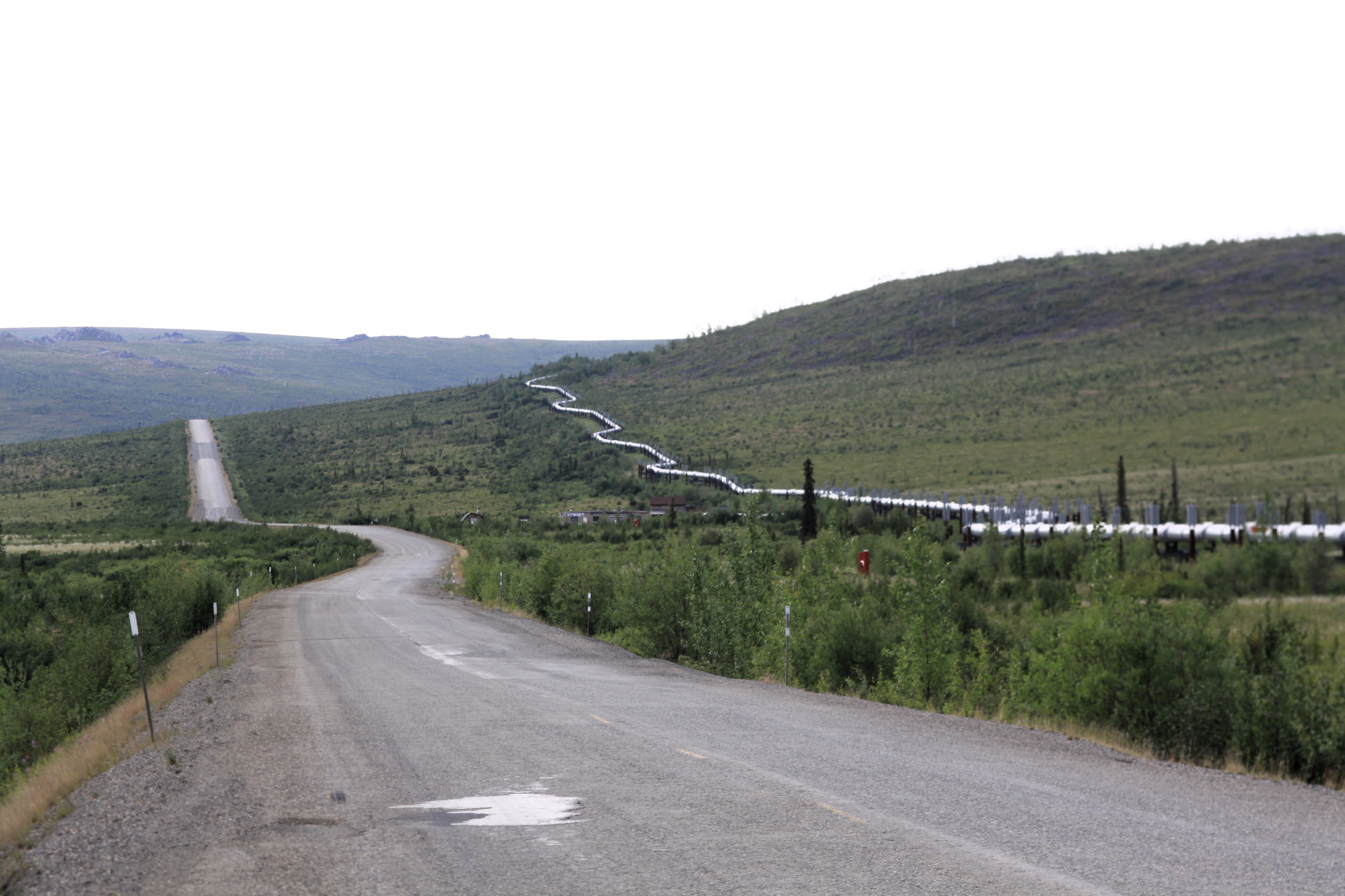 Dalton Highway in July with Trans-Alaska-Pipeline close to Finger Mountain.